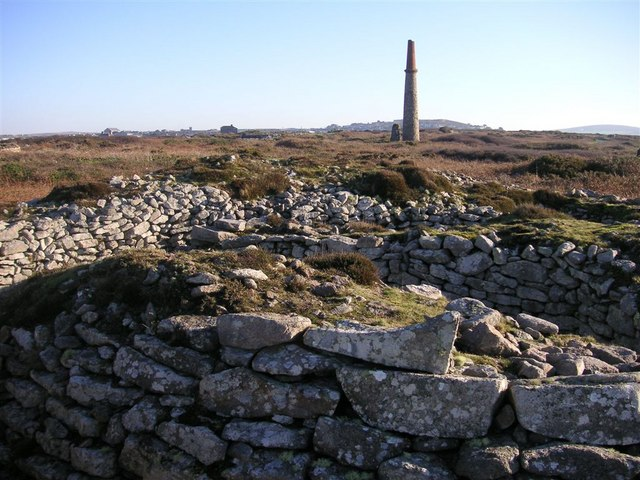 Ballowall Barrow, near St Just